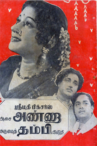 This is the advertising poster of the Tamil language film Asai Anna Arumai Thambi released on 29 July 1955